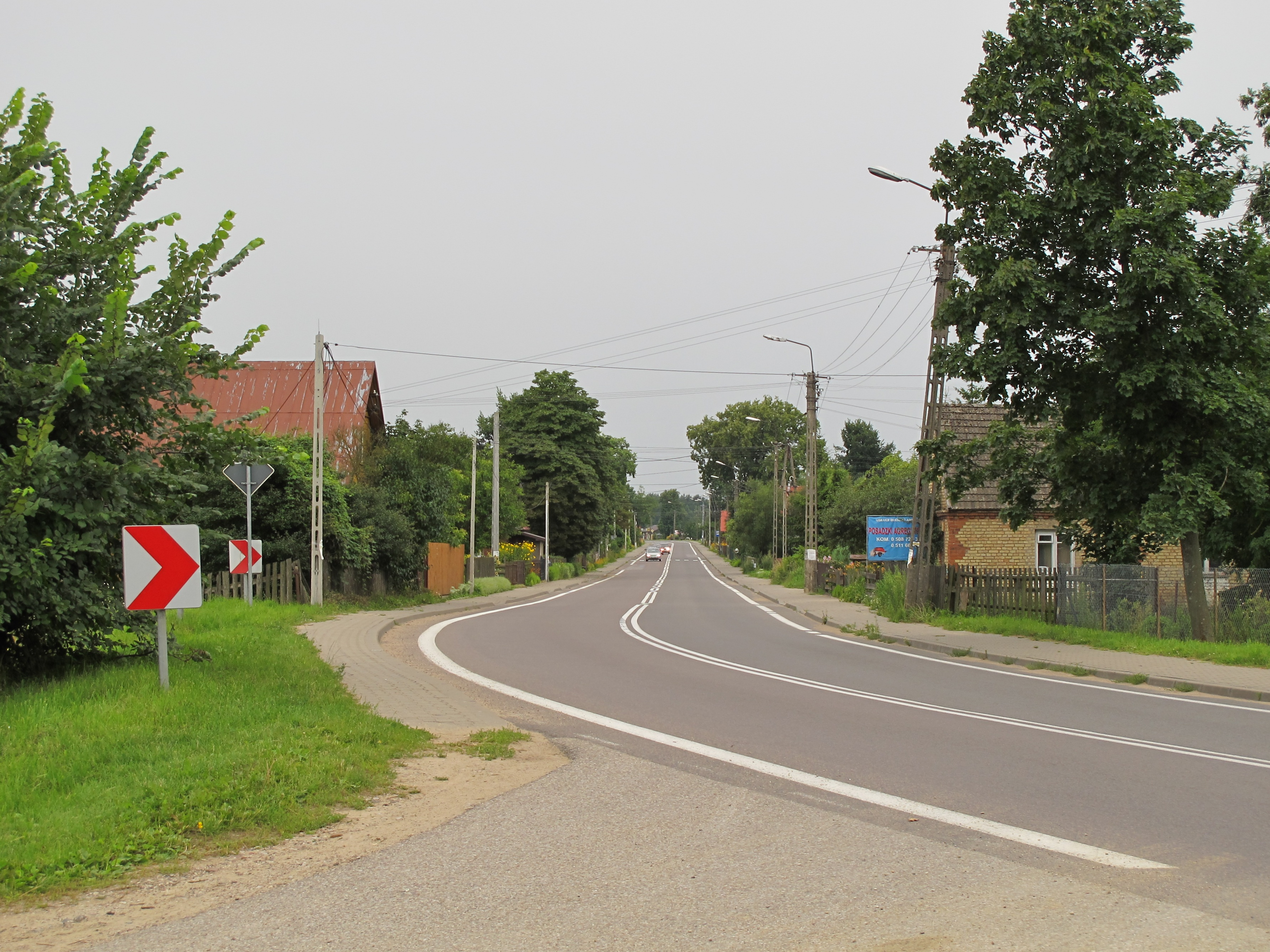 NR19 in the Zwierki village, gmina Zabłudów, podlaskie, Poland